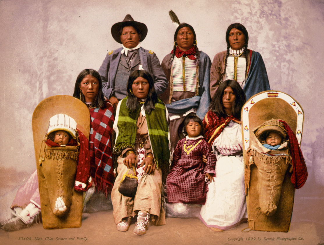 53408. Utes. Chief Sevara (actually Severo or Shavano – Rainbow) and family.